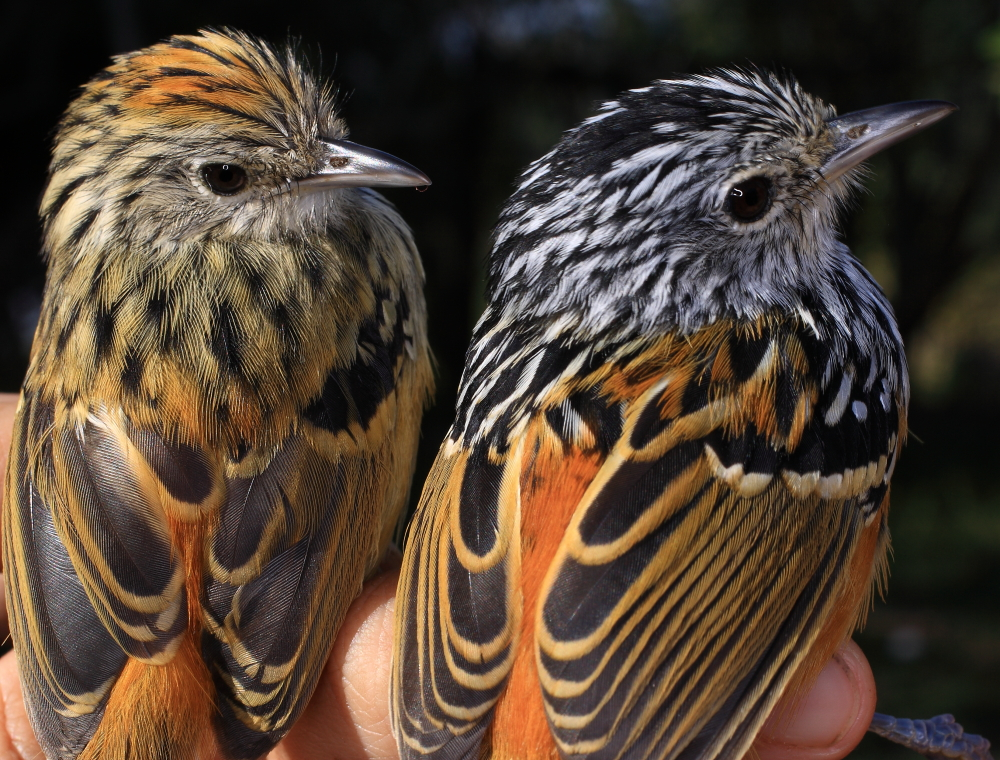 Drymophila klagesi Birds of Serranía de Perijá of Colombia and Venezuela (Ornitologia Colombiana [2014] 14: 62–93)